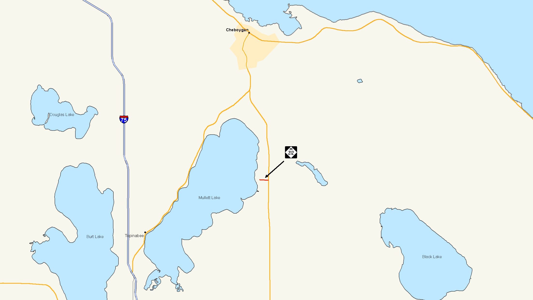 Map of M-212